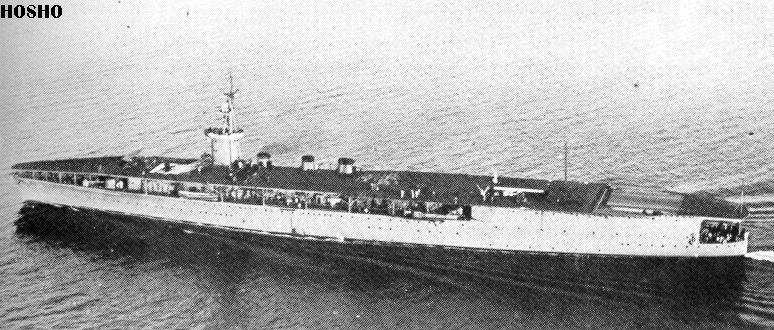 japanese carrier hosho during trials, early 1923